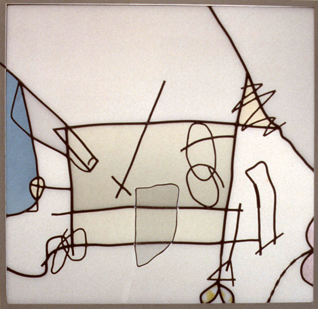 "Composition XXIX" — by Robert Kehlmann (1976). Opaque leaded glass panel with glass overlay. Corning Museum of Glass collection.